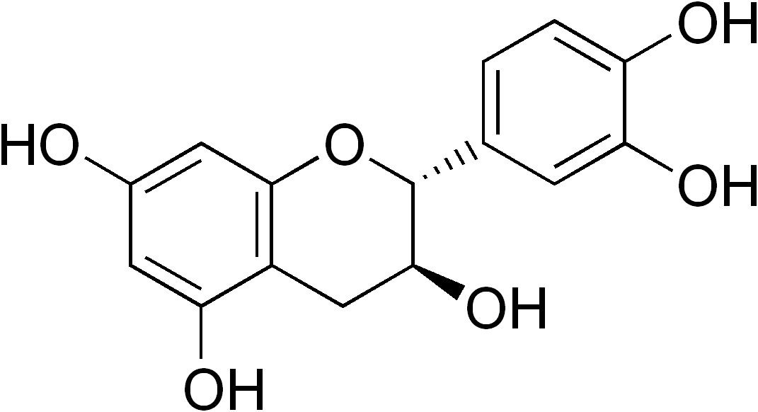 chemical structure of (+)-catechin